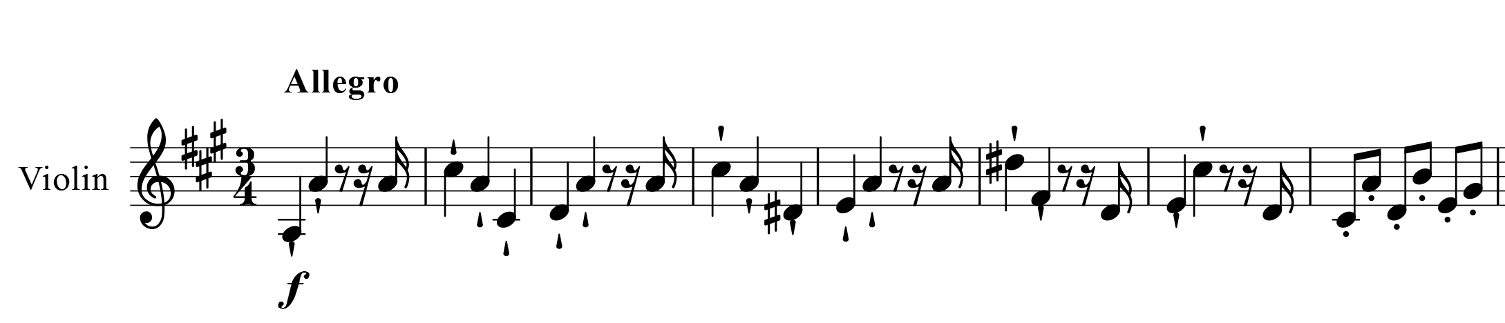 Joseph Haydn, Symphony No. 5, second movement, bar 1-8